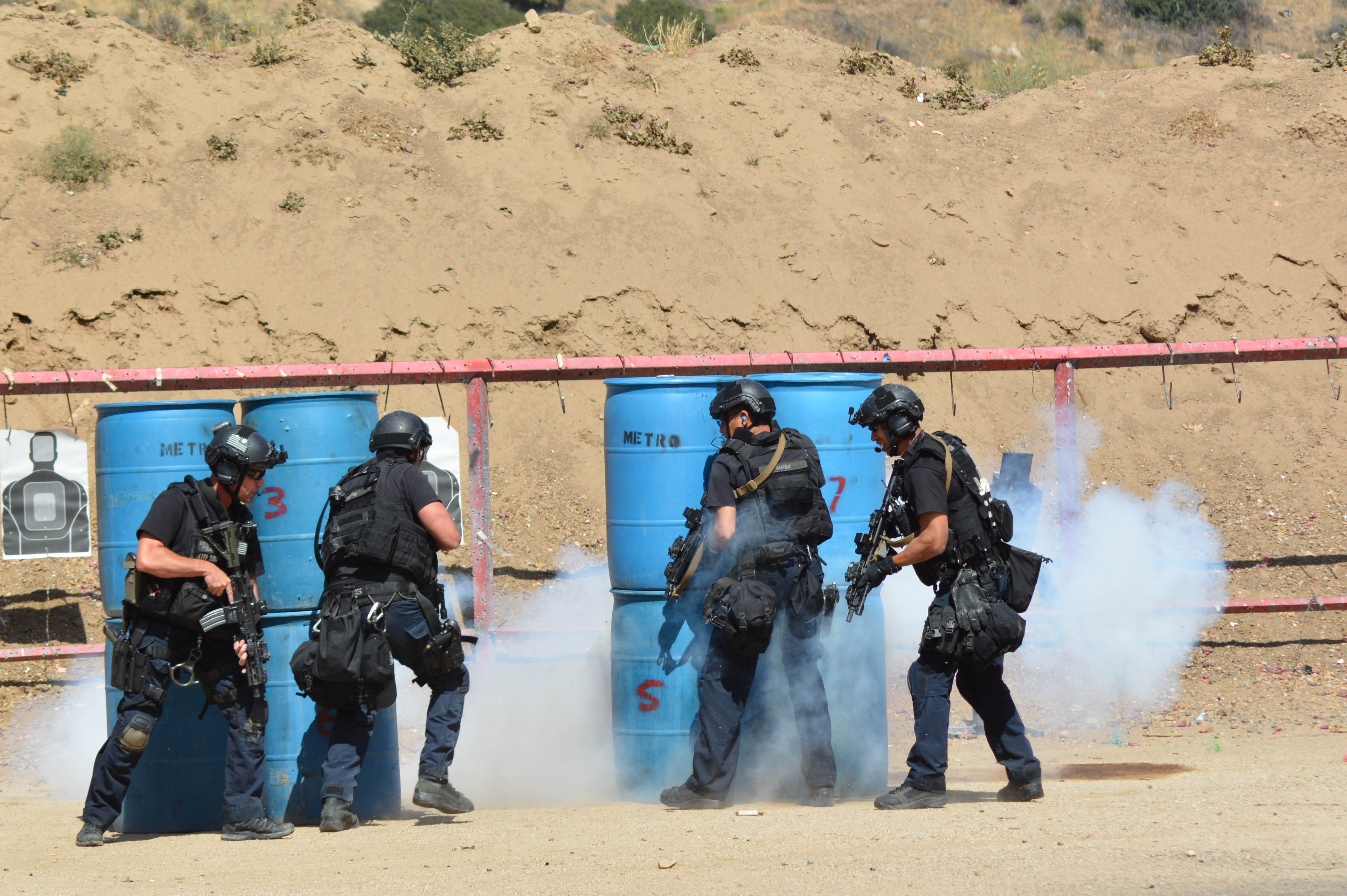 LAPD SWAT officers taking part in an exercise